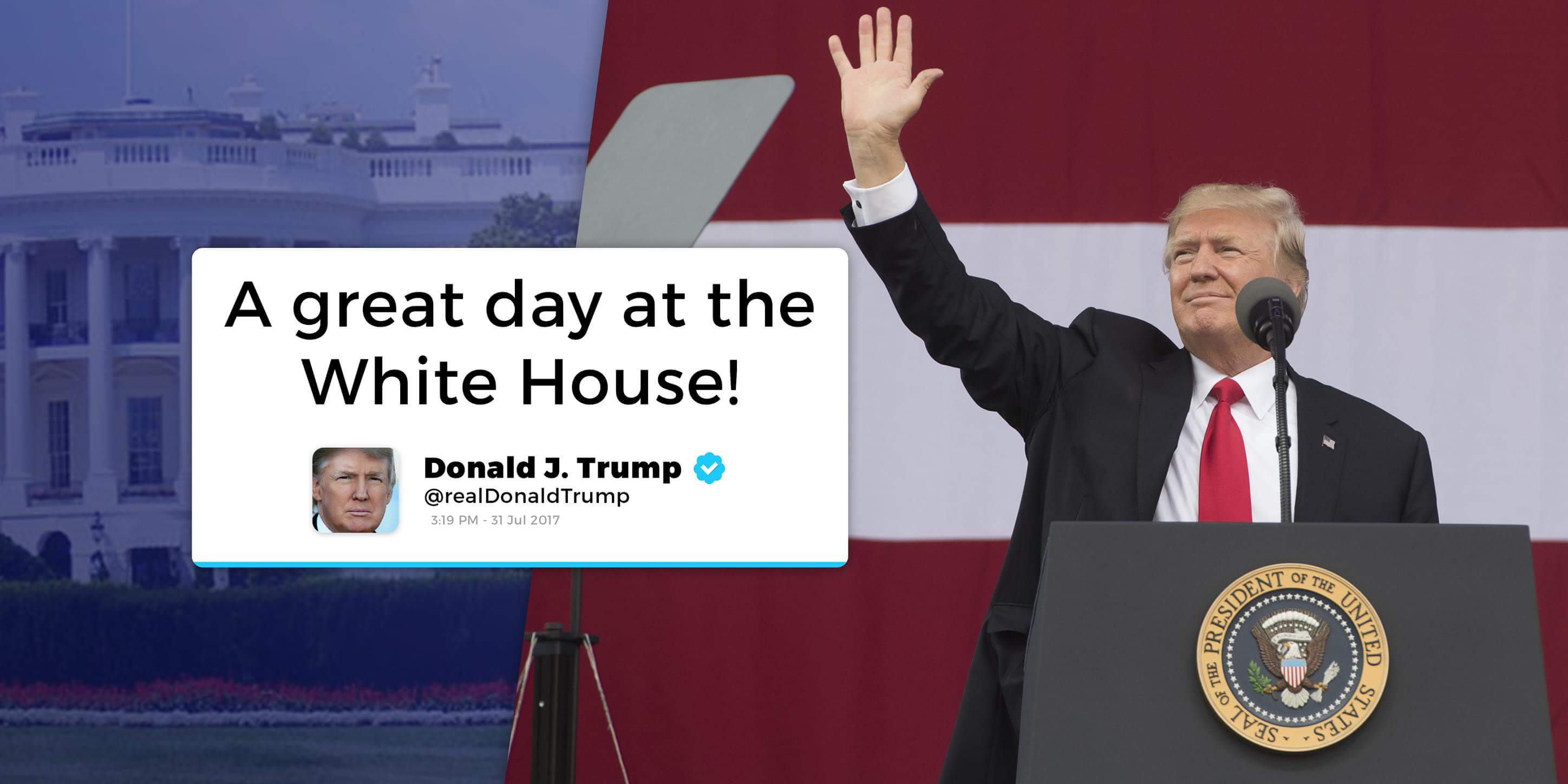 Same day he fired Anthony Scaramouche